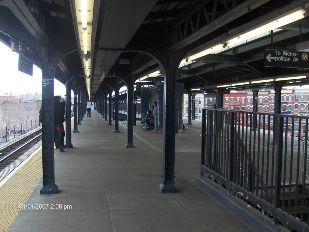 Myrtle-Wyckoff Avenue M train platform